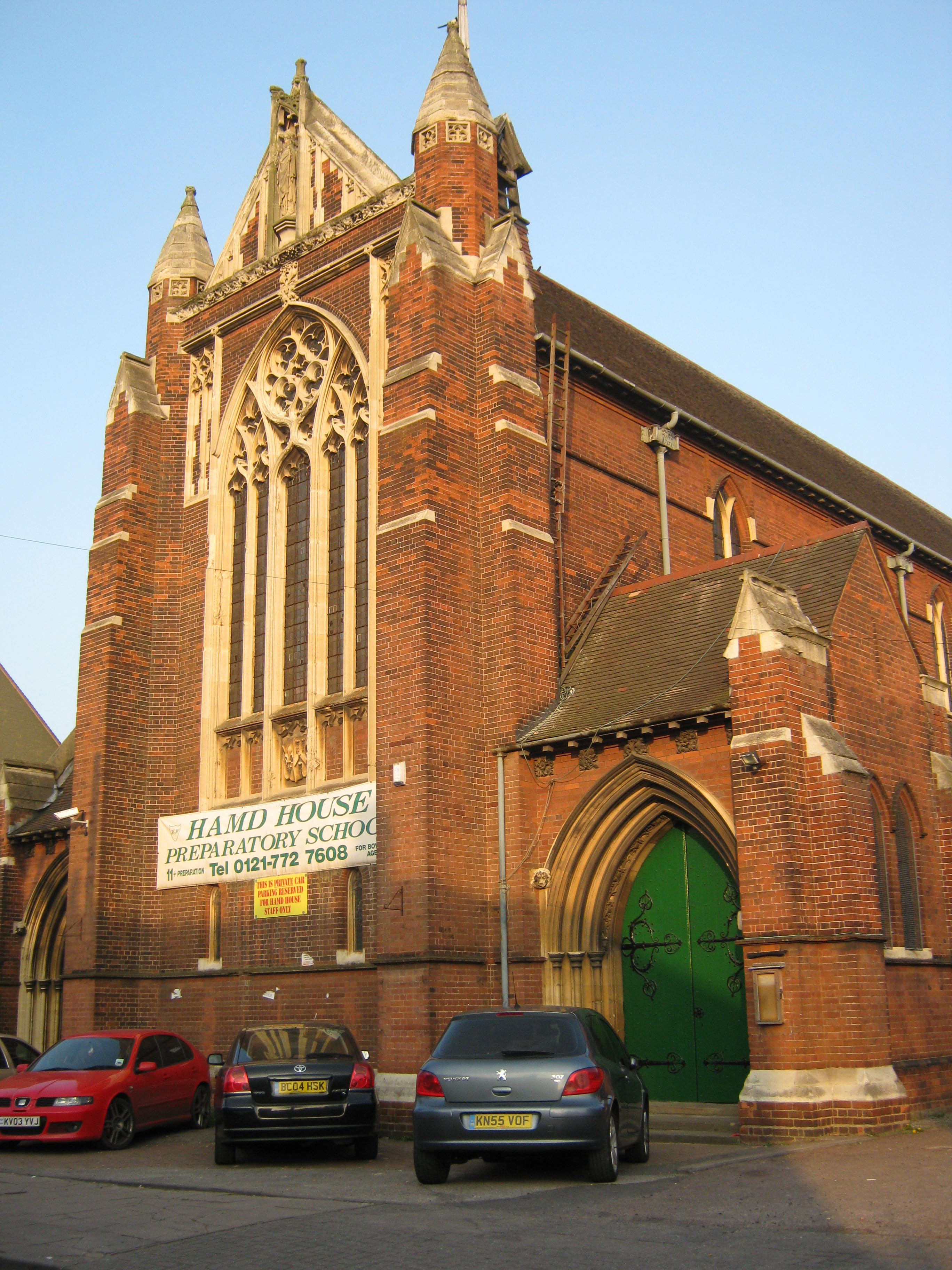 The west front of Hamd House Preparatory School, St Oswalds Road, Small Heath, Birmingham B10. Built in the 1890s as St Oswald's parish church.